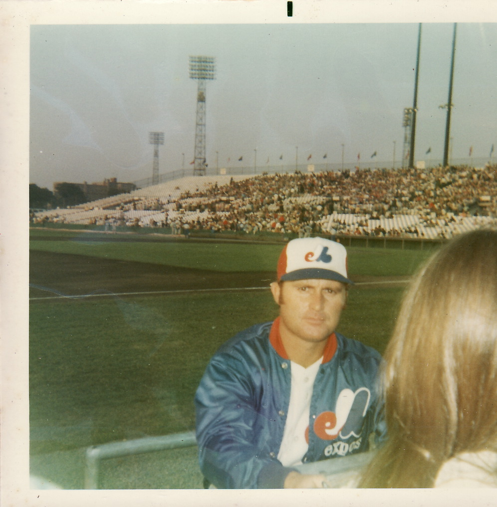 Ron Fairly as a Montreal Expos player, 1969